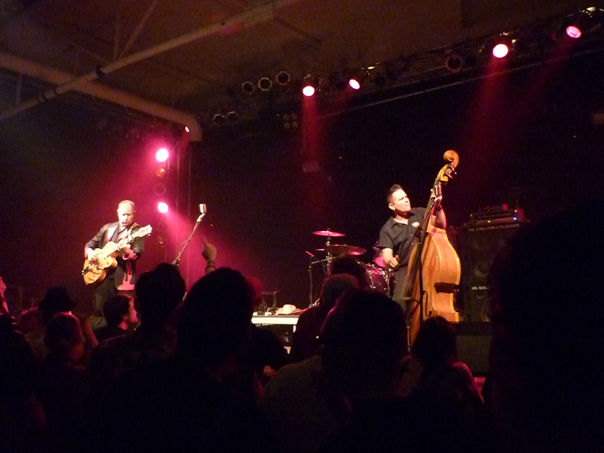 Reverend Horton Heat live at the Essigfabrik, Cologne